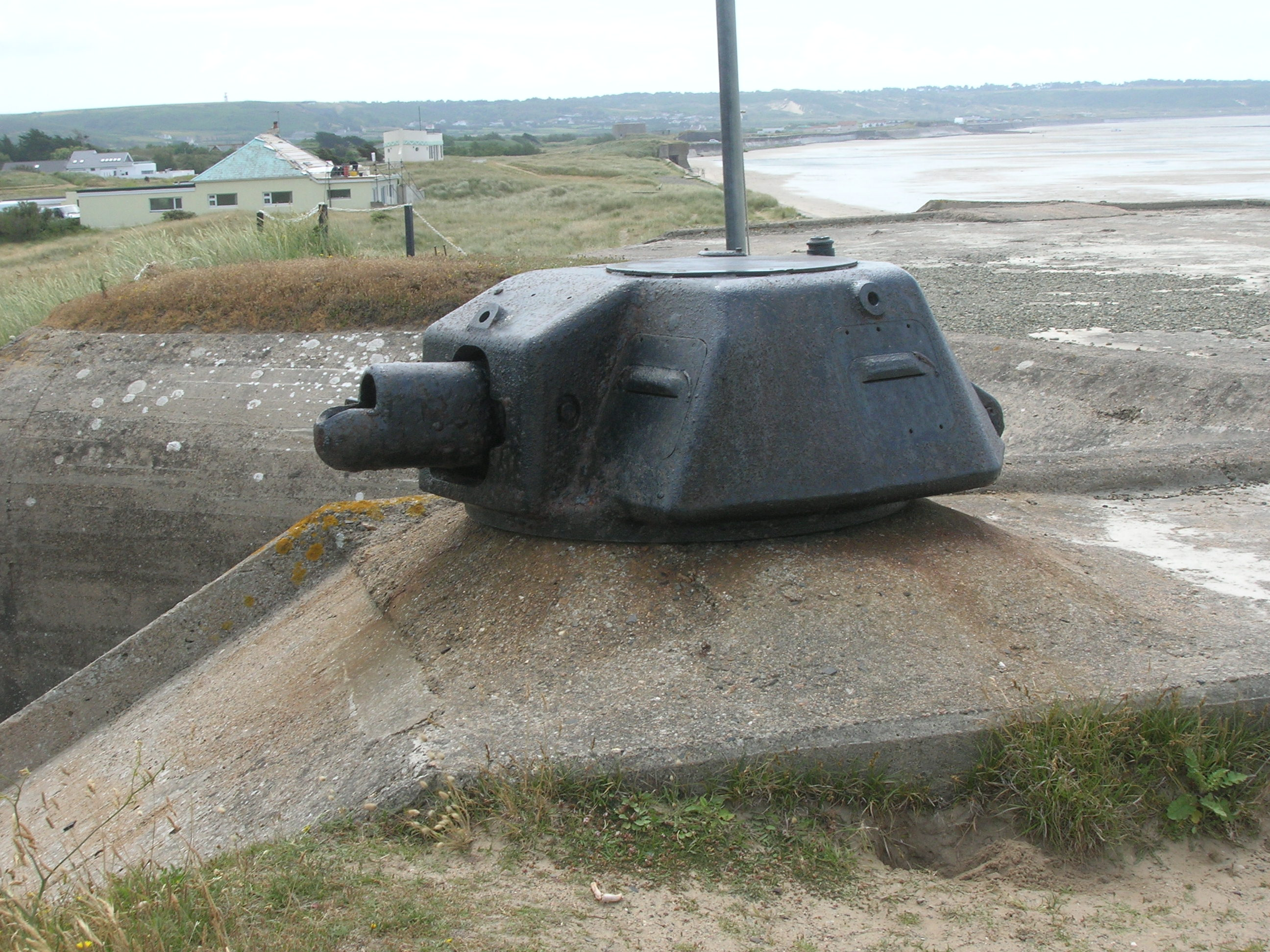 Element of the defenses of the bunker that houses the Channel Islands Military Museum